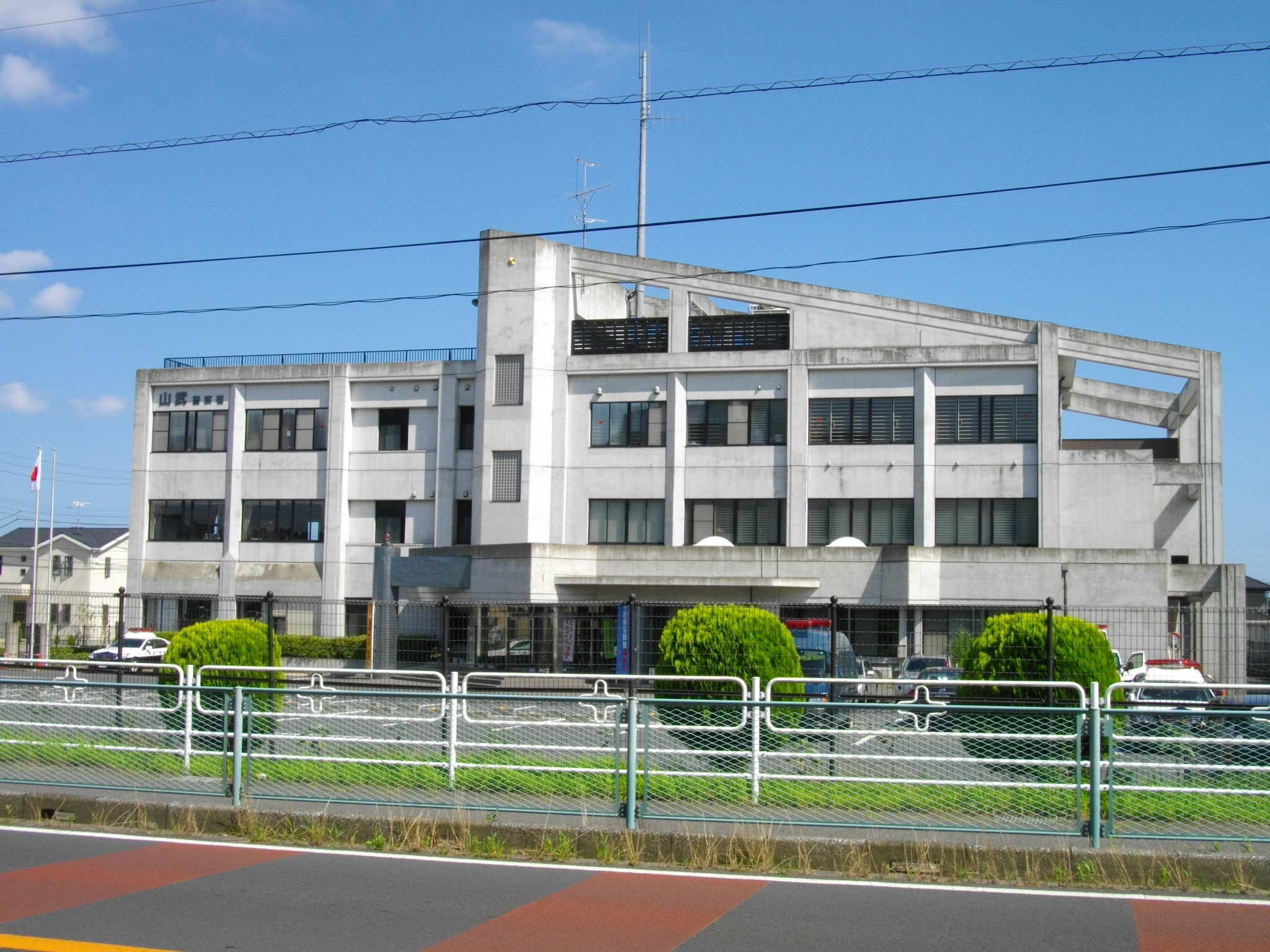 Sanmu Police Station